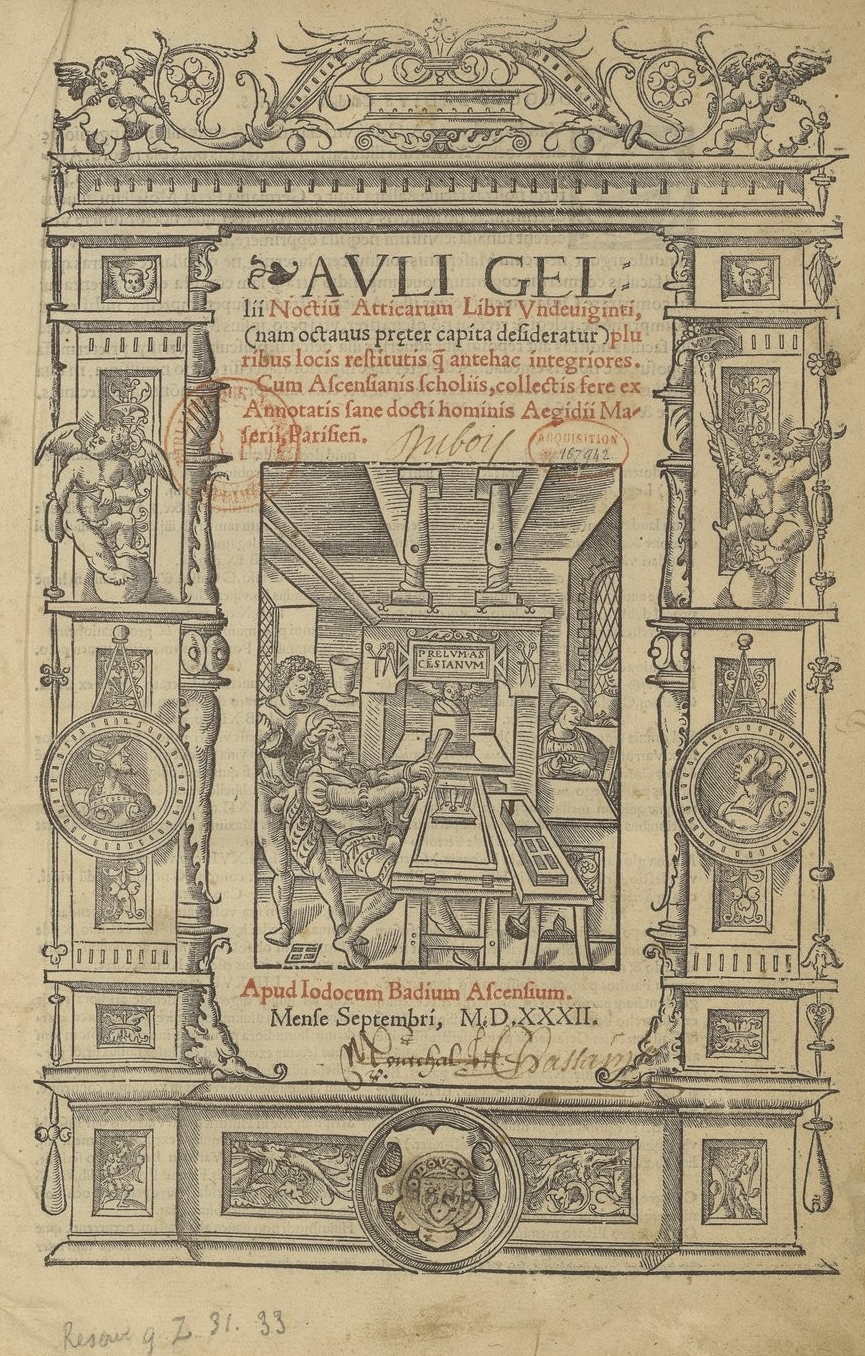 Aulus Gellius, Noctes Atticae ed. Josse Bade: title page